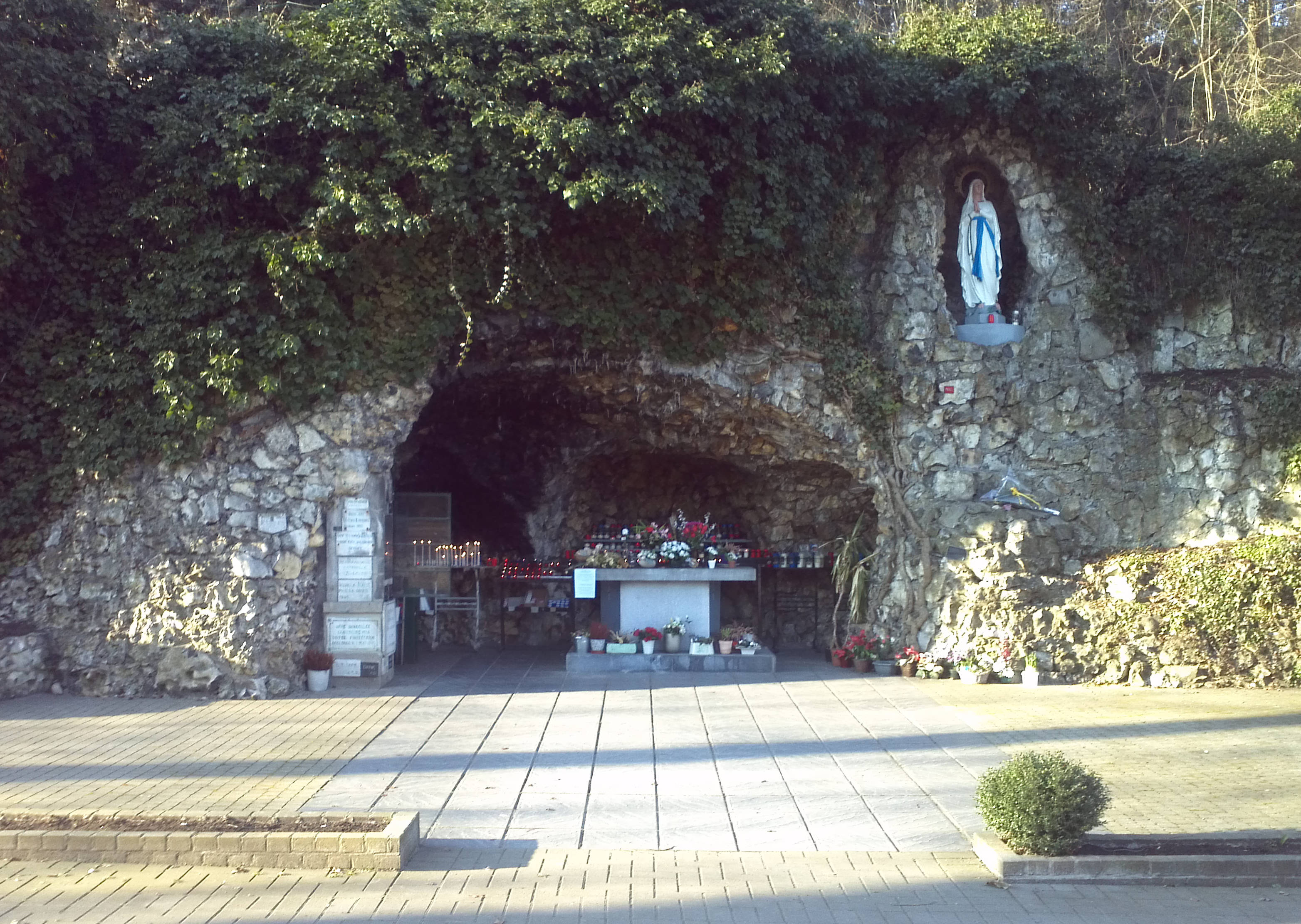 The Little Lourdes in Bassenge, Belgium.